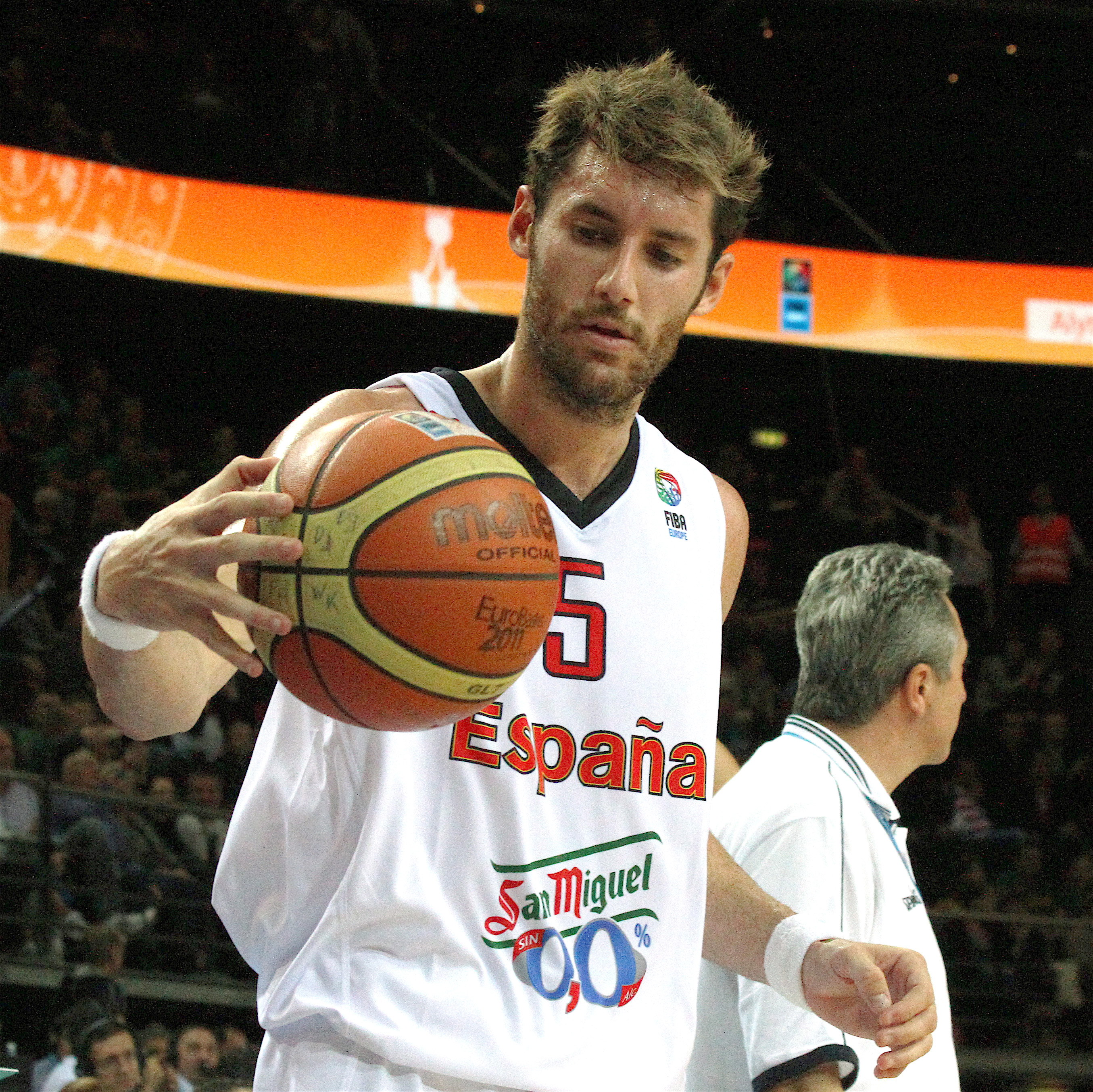 Rudy Fernandez of Spain at Eurobasket 2011.